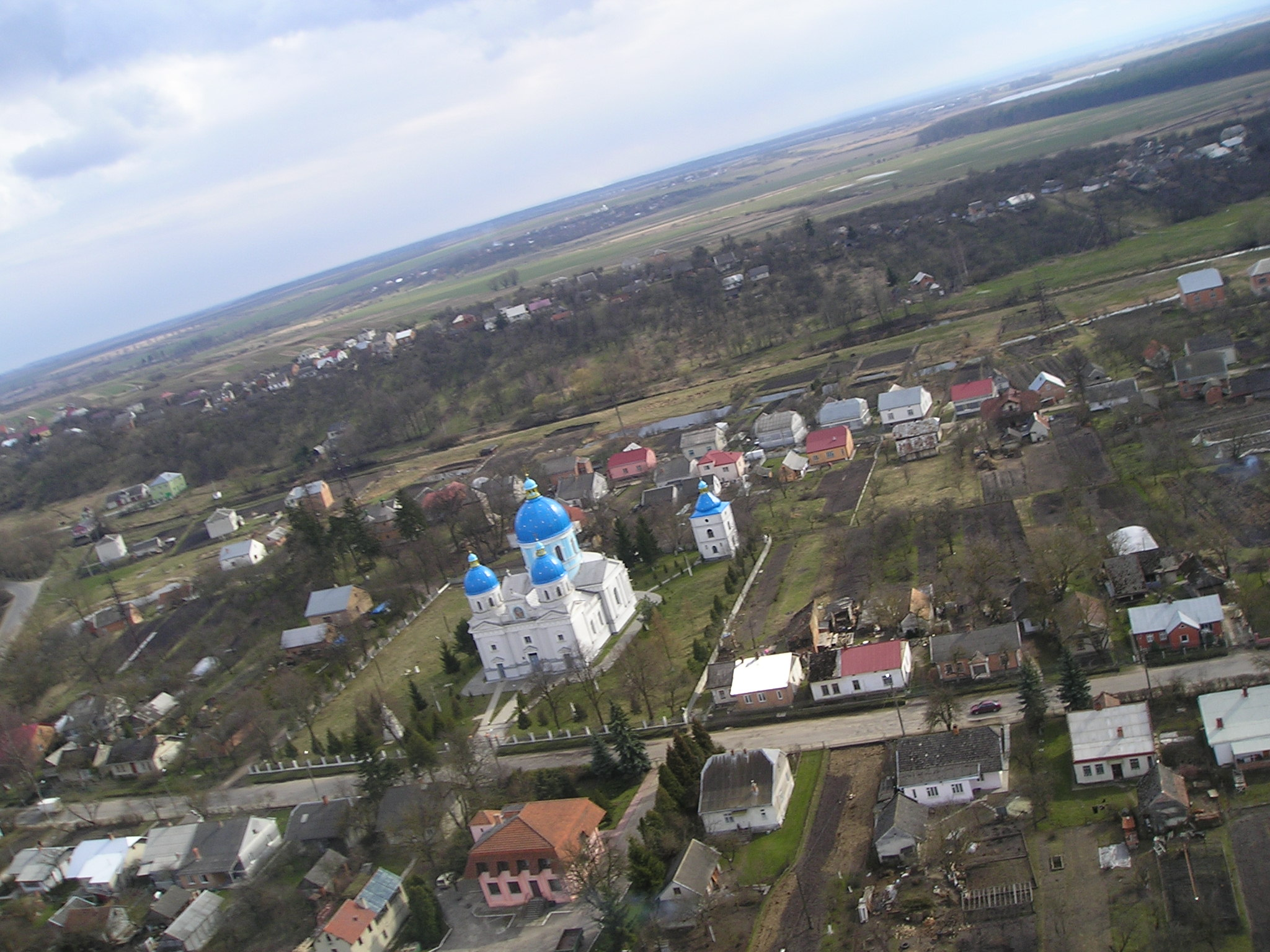 Komarno_St.Mykhail_Church